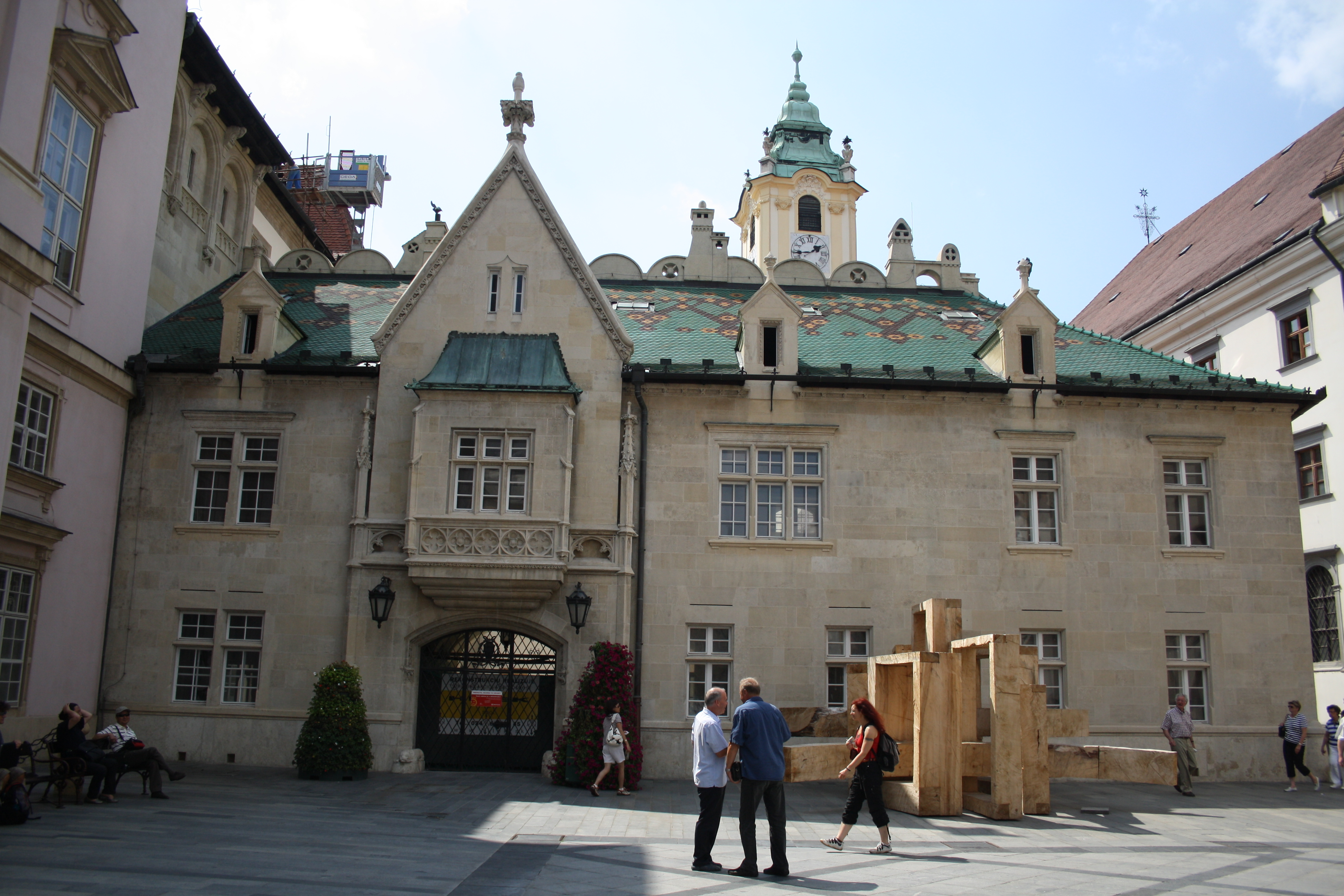 Jakub's house of Stará radnica in Bratislava.